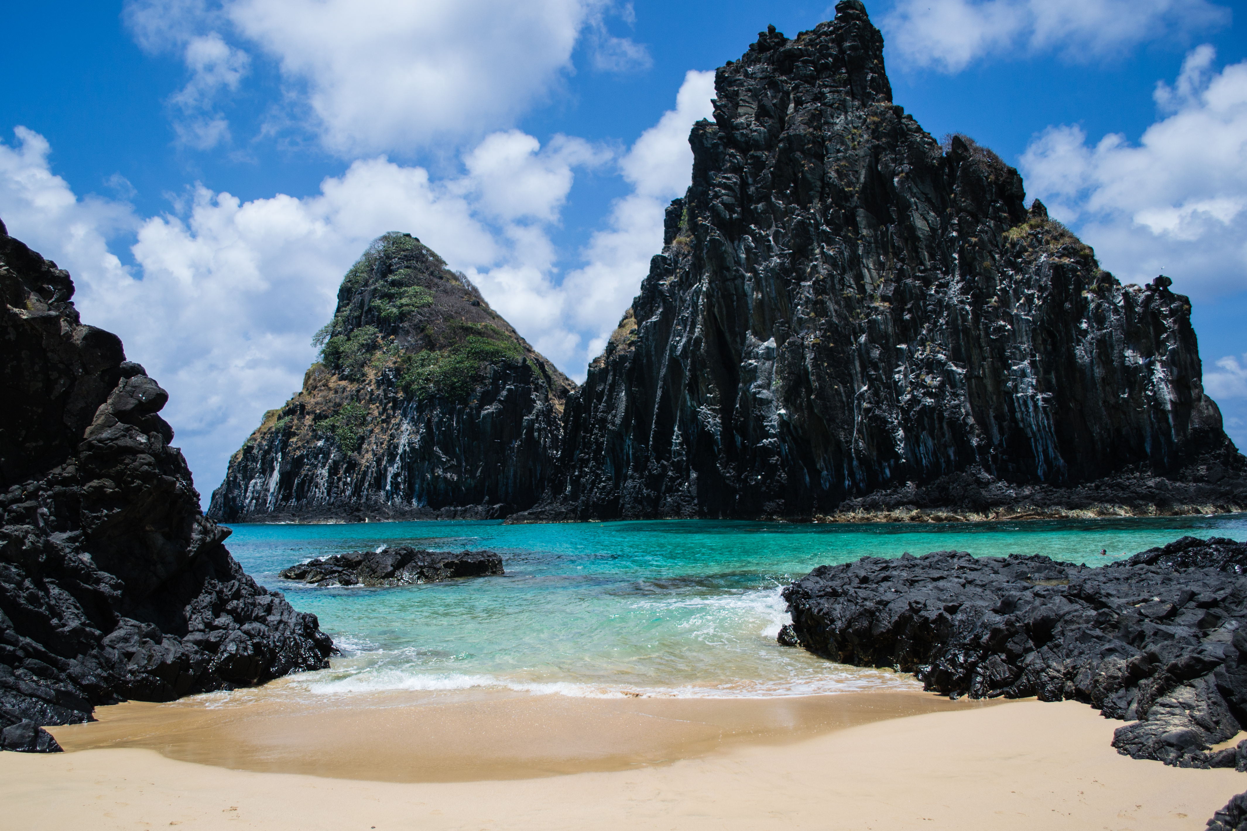 Two Brothers Rock - Fernando de Noronha Archipelago, Pernambuco, Brazil